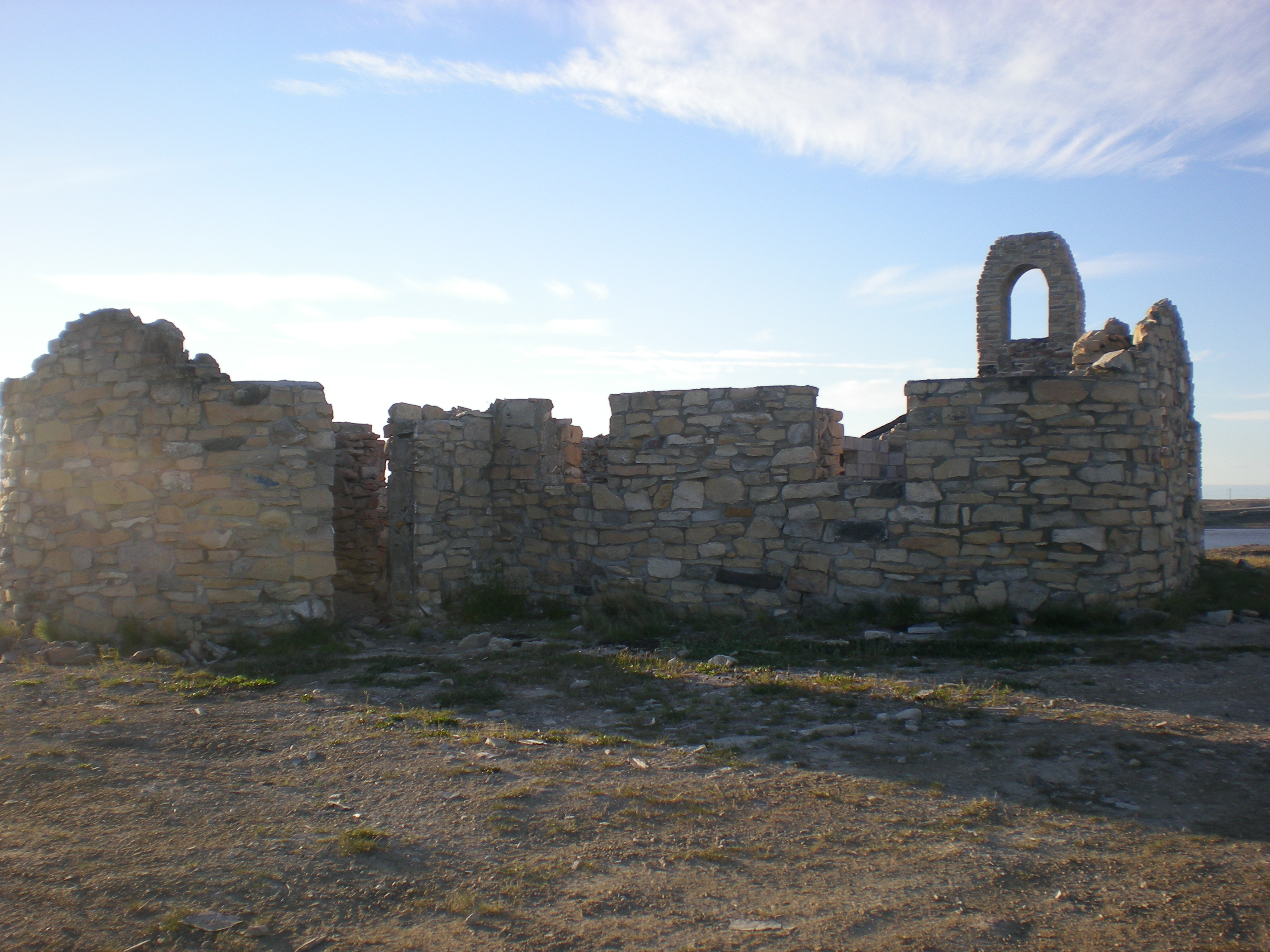 Cambridge Bay Stone Church after fire, 27 April 2006